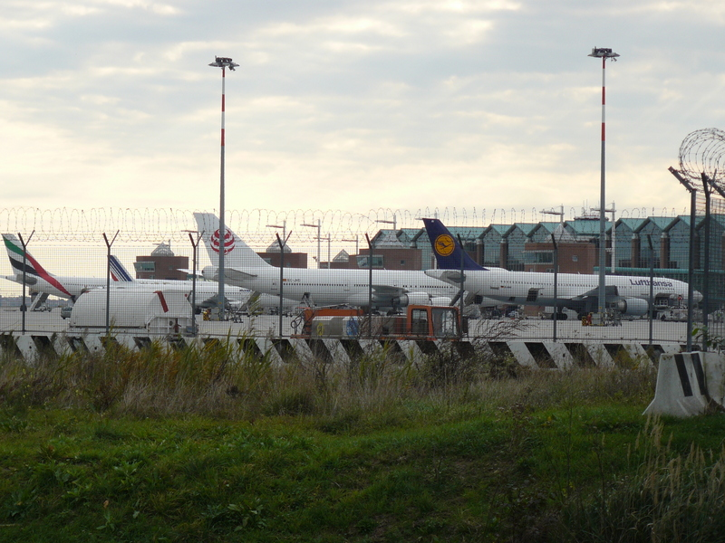 Terminal